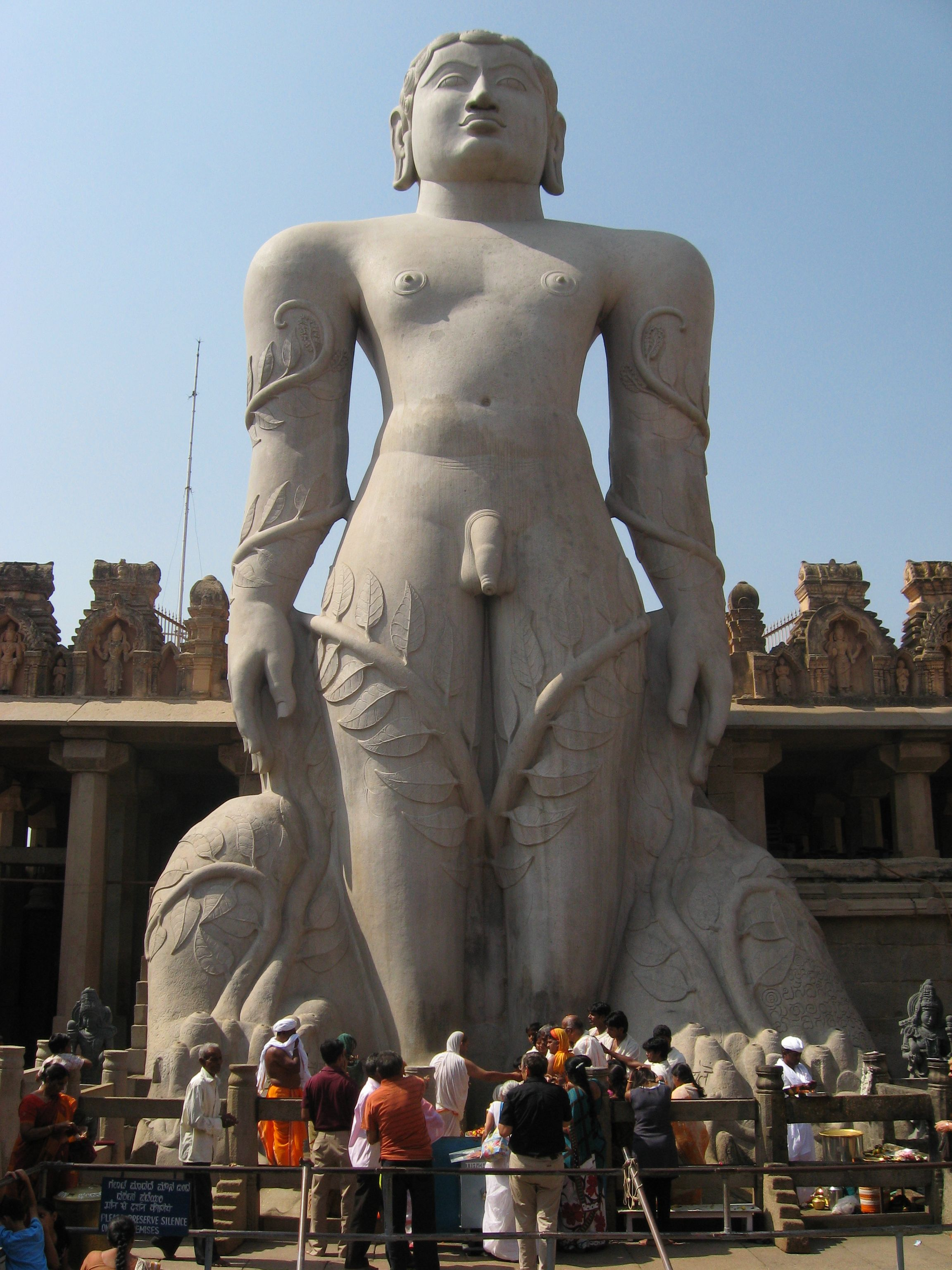 Gomatesvara Statue